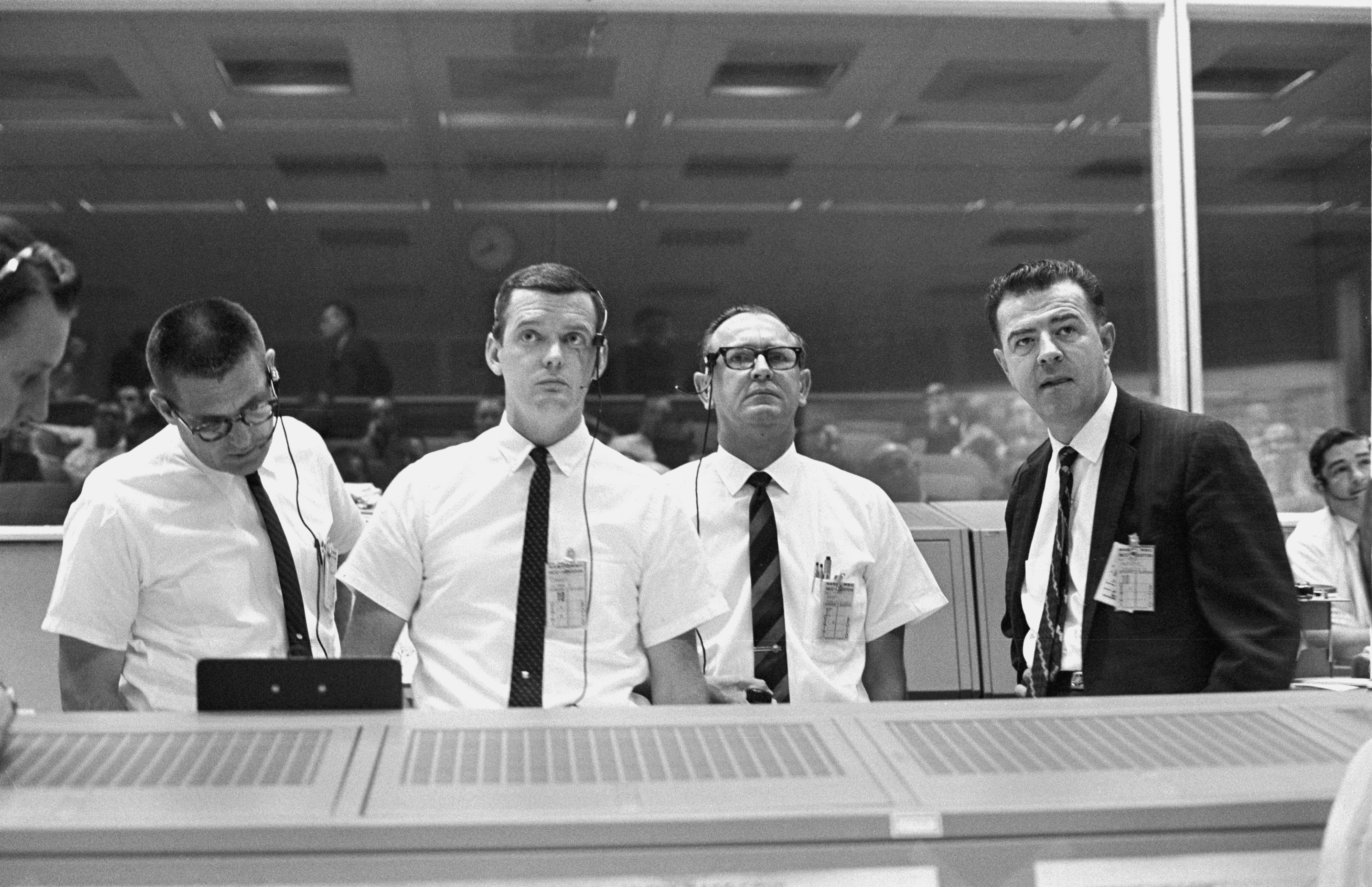 (18 July 1966) --- Standing at the flight director's console, viewing the Gemini-10 flight display in the Mission Control Center, are (left to right) William C. Schneider, Mission Director; Glynn Lunney, Prime Flight Director; Christopher C. Kraft Jr., MSC Director of Flight Operations; and Charles W. Mathews, Manager, Gemini